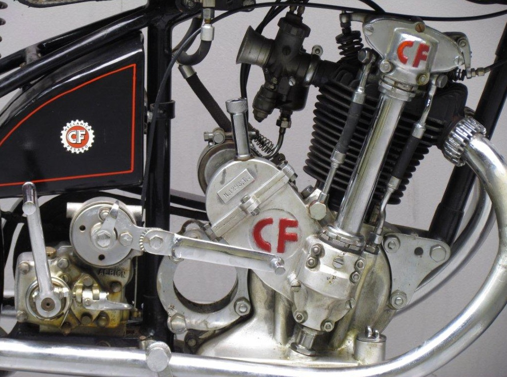 1933 CF Leggera 175 cc OHC engine